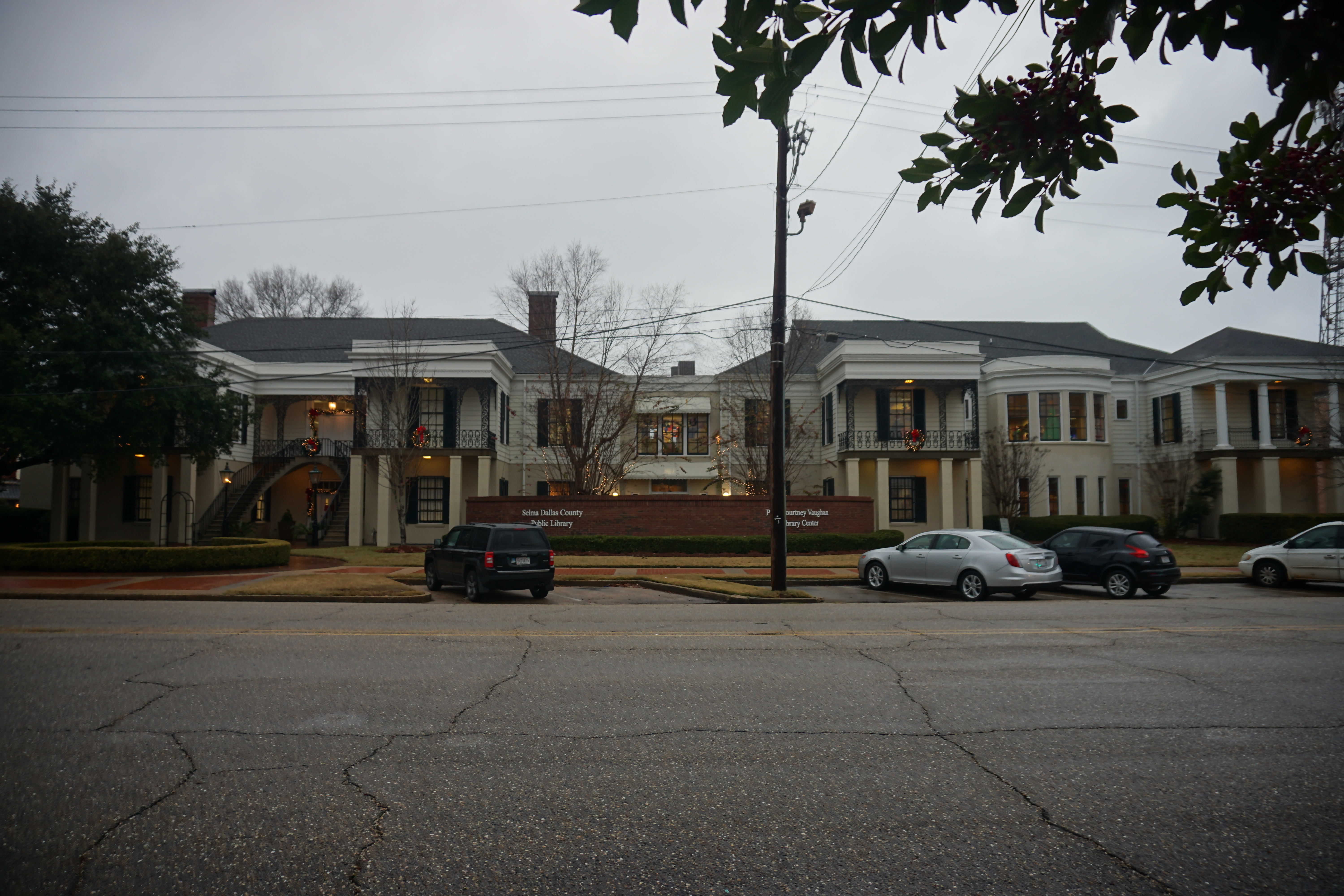 The Selma-Dallas County Public Library in Selma, Alabama (United States).